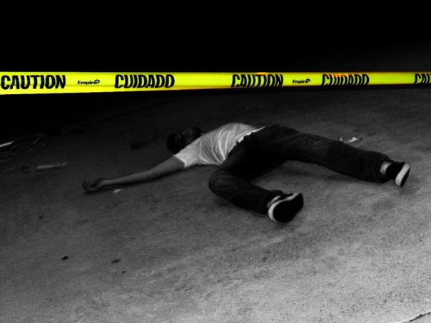 Colton Cotton plays dead in a fictional crime scene.